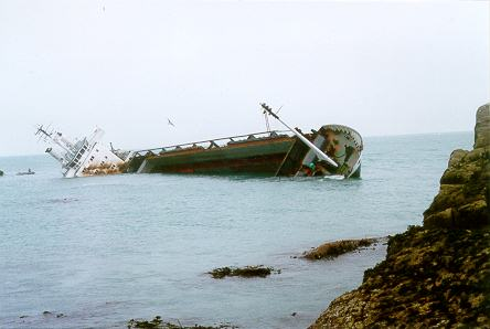 MV Cita after running aground on Newfoundland Point, Isles of Scilly. This is after the fuel oil and containers were salvaged but before the vessel slid into deeper water. CITA (ex LAGARFOSS 1996 ex JOHN WULFF 1983) IMO number: 7605859 Flag: Antigua and Barbuda